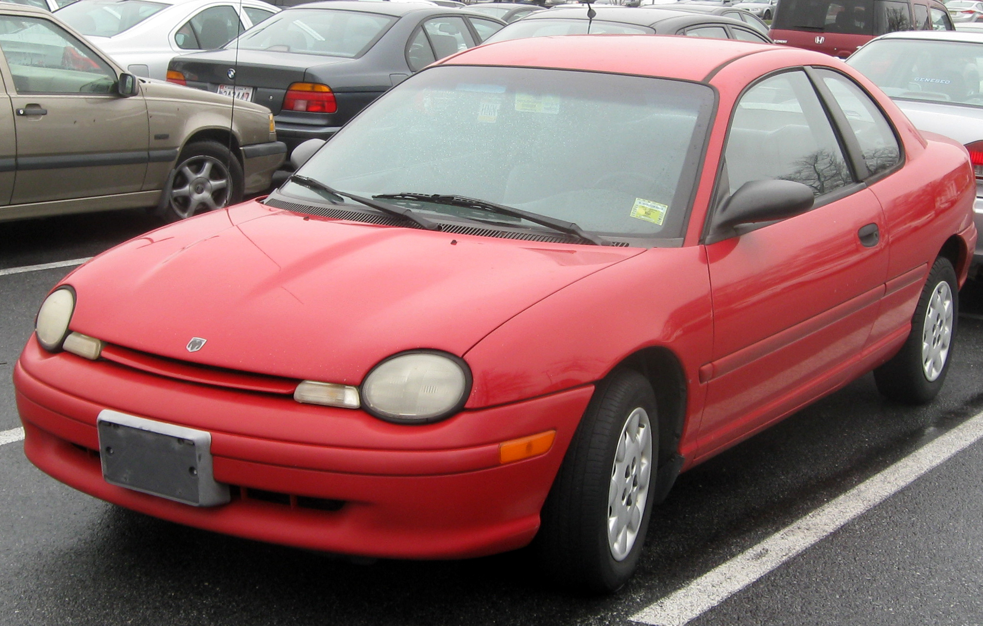 1995-1999 Dodge Neon photographed in College Park, Maryland, USA.